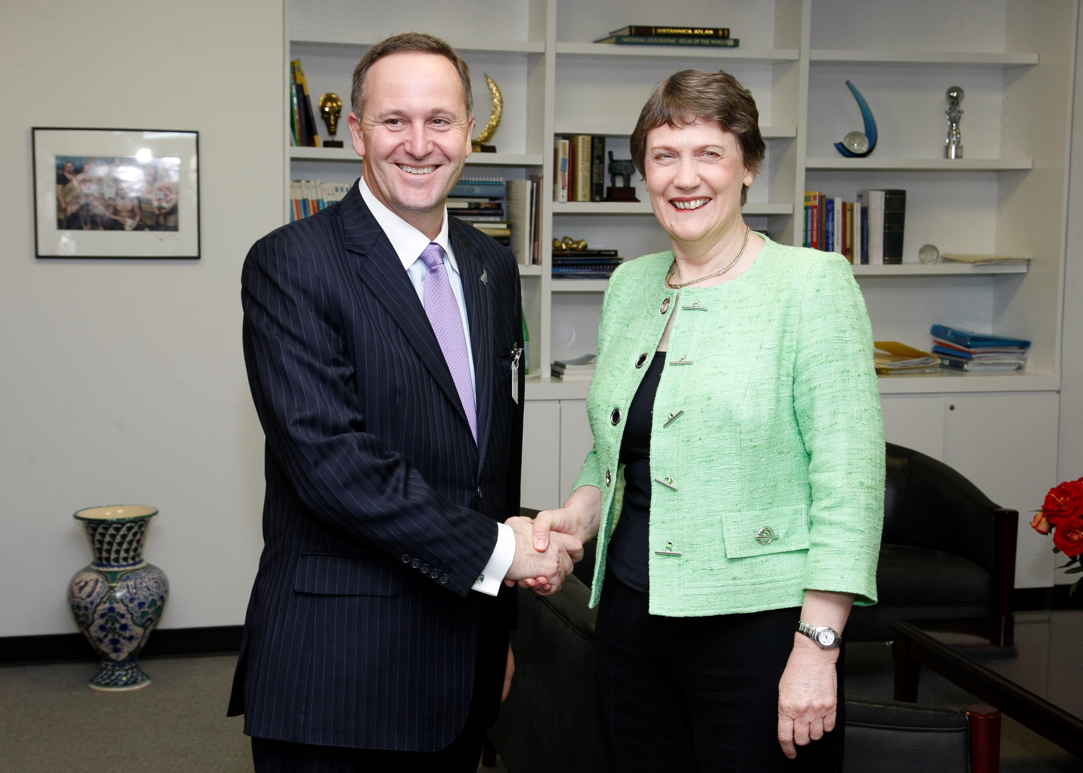 UNDP Administrator Helen Clark shaking hands with New Zealand Prime Minister John Key.